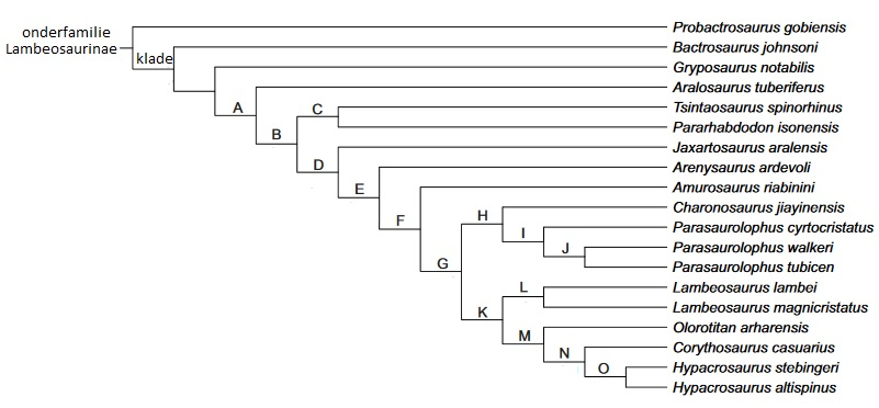 Phylogenetic tree from subfamily Lambeosaurinae resulting from data and research by Evans and Reisz (2007), Prieto−Márquez (2010a) and Godefroit et al. (2011).